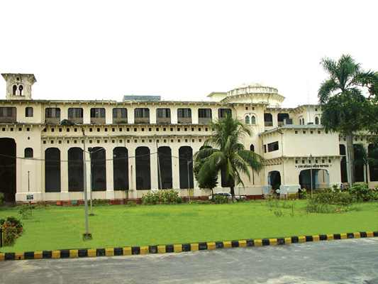 DMC front